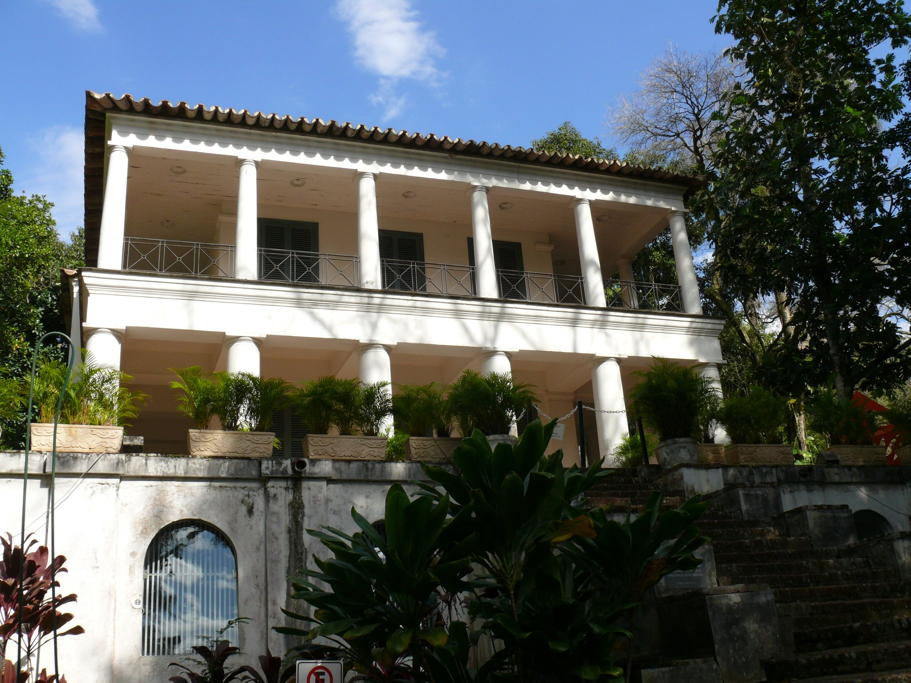 The house of Auguste Henri Victor Grandjean de Montigny in the Pontifical Catholic University of Rio de Janeiro (Brazil).